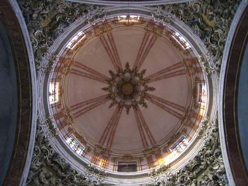 Interior de la cúpula de la Basilica de Aspe